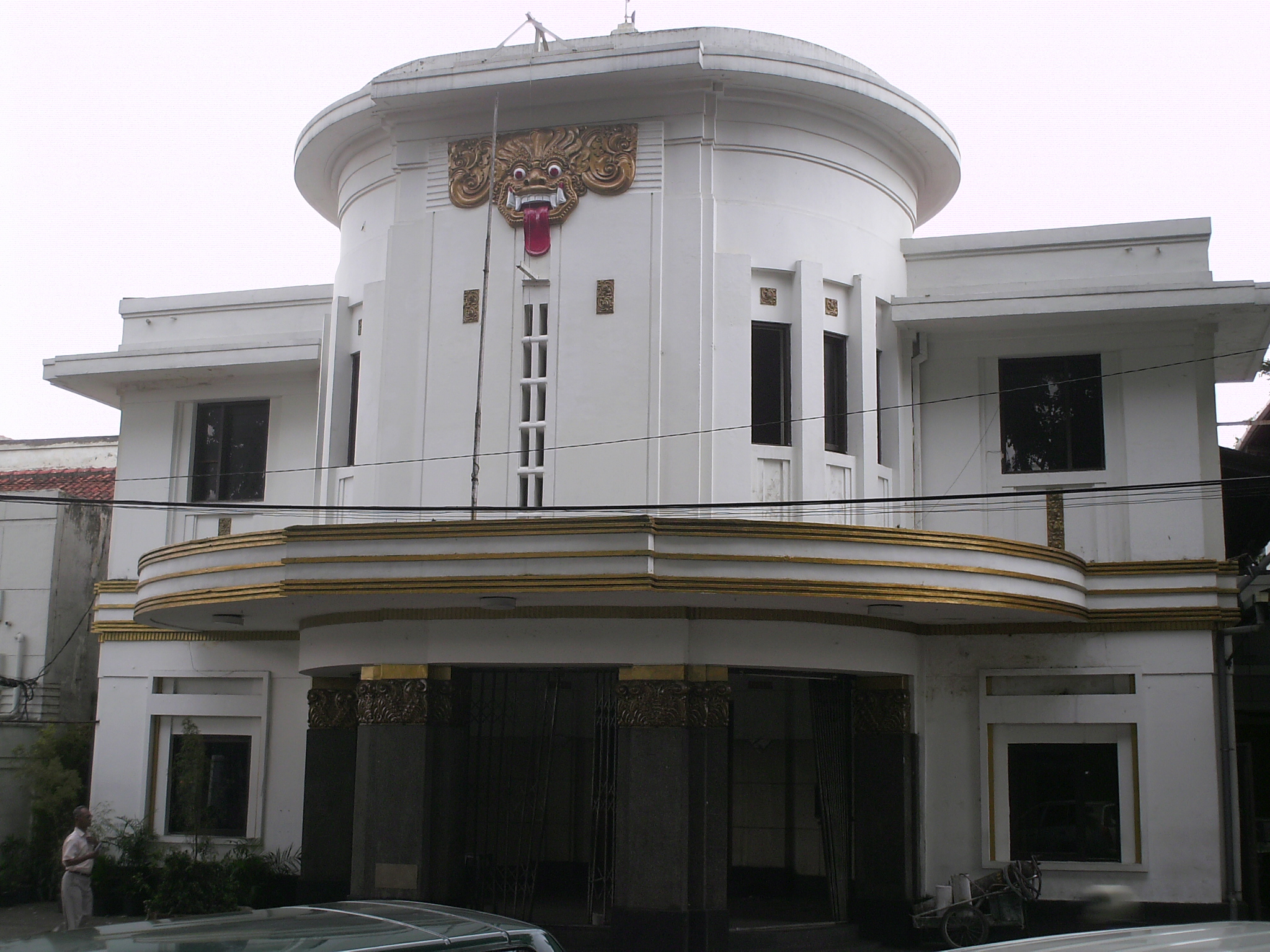 One of the old buildings at Braga Street in Bandung. The monster ornament is a native element included by its architect, Wolff Schoemaker, and he called it "kalakop" from the Dutch words of kop van kala or the head of kala.